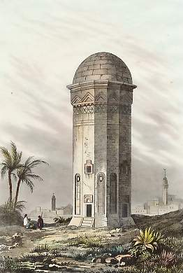 Tour D´Erivan. Light yellowing in the lower margin. Hand-coloured. 14x9cm. Mounted.